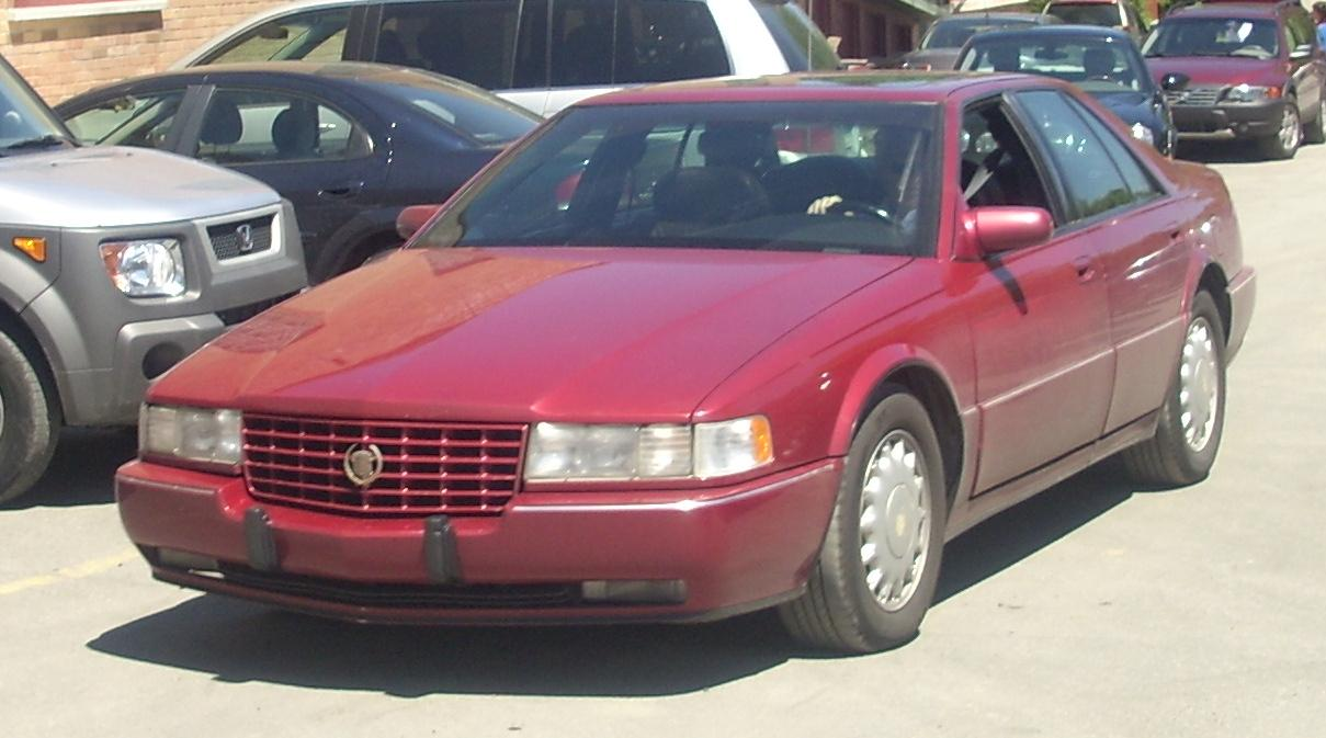 1995-1997 Cadillac Seville photographed at the 2008 Hudson British Car Show.